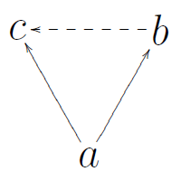 an illustration for the euclidean relation. The normal arrows are in the antecedent, the pointed arrow is in the consequent.